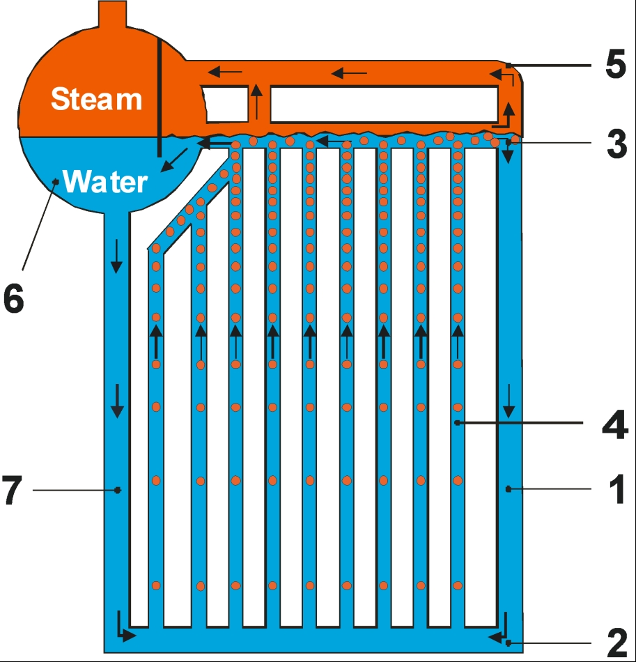 Water circulation concept in corner tube boiler